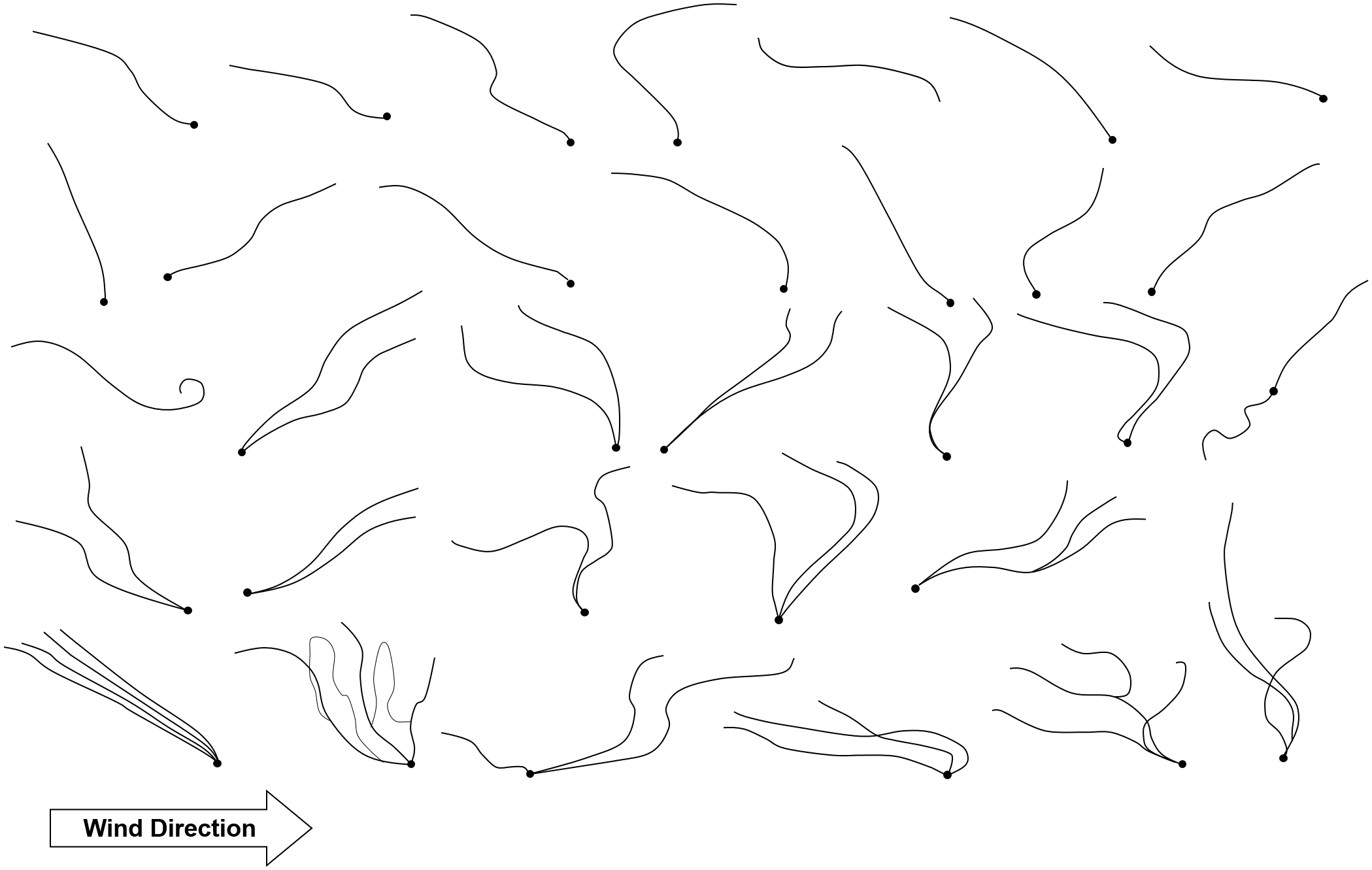 Sketches of ballooning structures (body + ballooning threads) These structures were observed above the water surface, at heights of 1–8 m. Wind was blowing from left to right. Therefore, these structures were transported in the same direction as the wind. Black, thick points represent the spider’s body. Black lines represent ballooning threads.